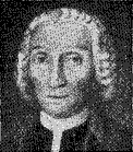 Ifvar Kraak (1708-1795), Danish translator, writer of school books, and language teacher, mainly active in Sweden.